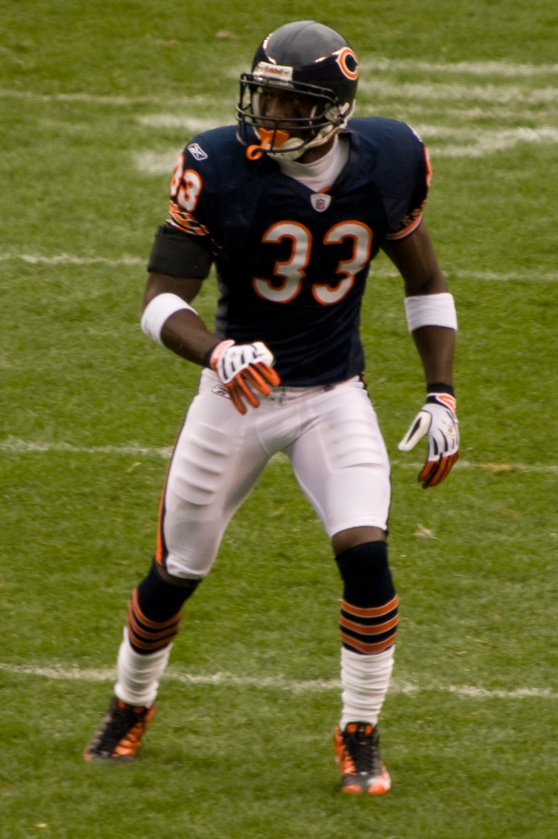 Charles Tillman of the Chicago Bears